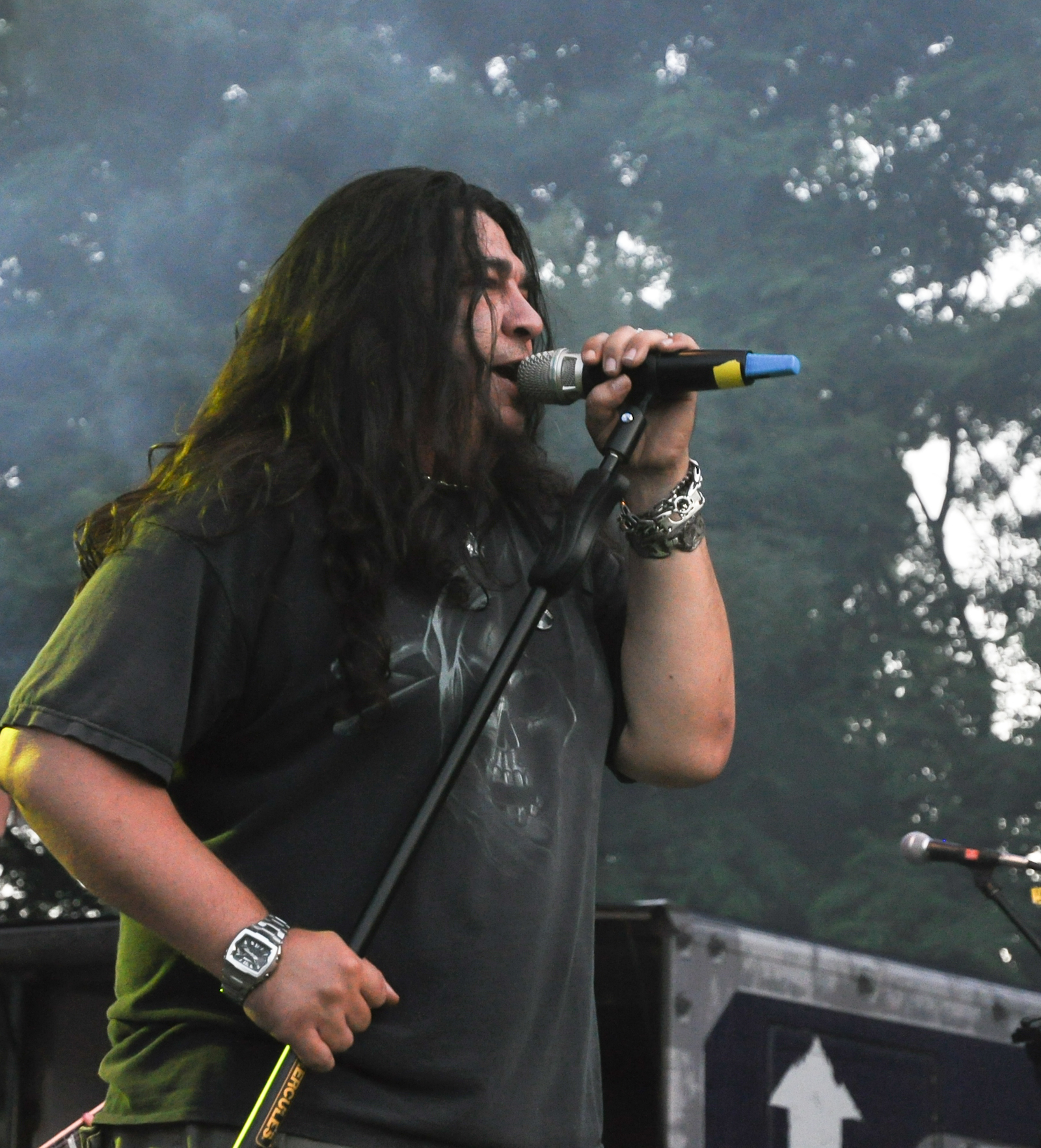 The Bulgarian rock vocalist Zvezdomir Keremidchiev at Flower for Gosho Fest 2011.